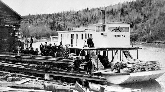 Nowitka sternwheel steamer loading at Golden, BC in 1911 for initial trip on Columbia River.